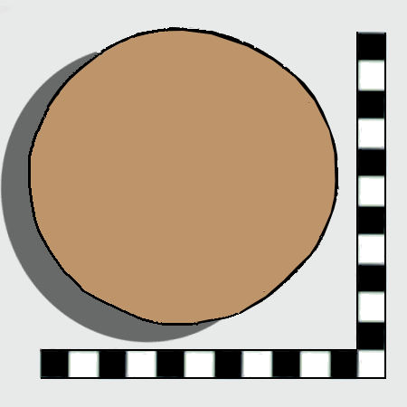 Spherical Soba stone discovered in Jebel Mahadid, western Ethiopia. Date: 14th century-early 17th century